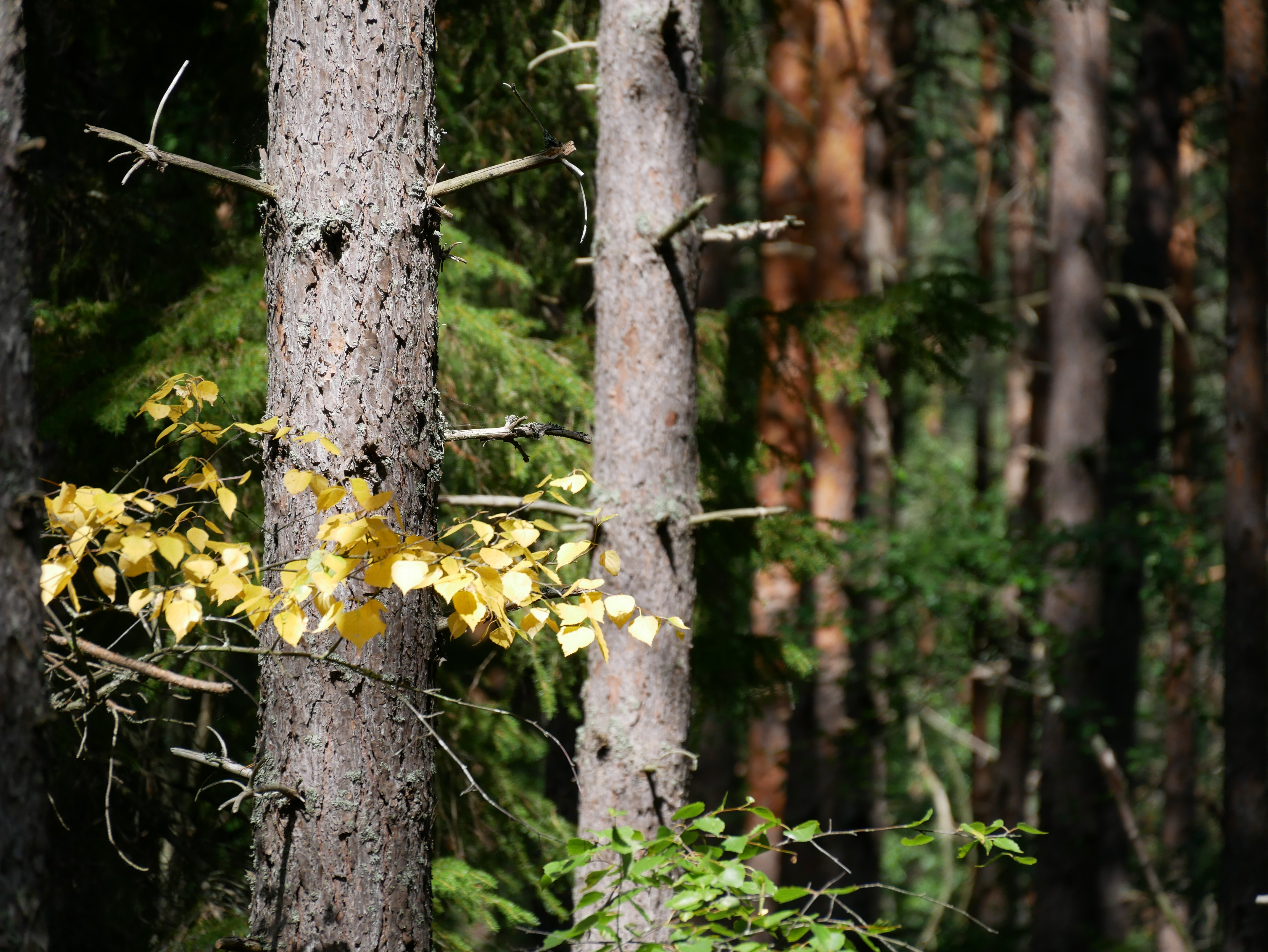 Forest at Södra Törnskogen Nature Reserve